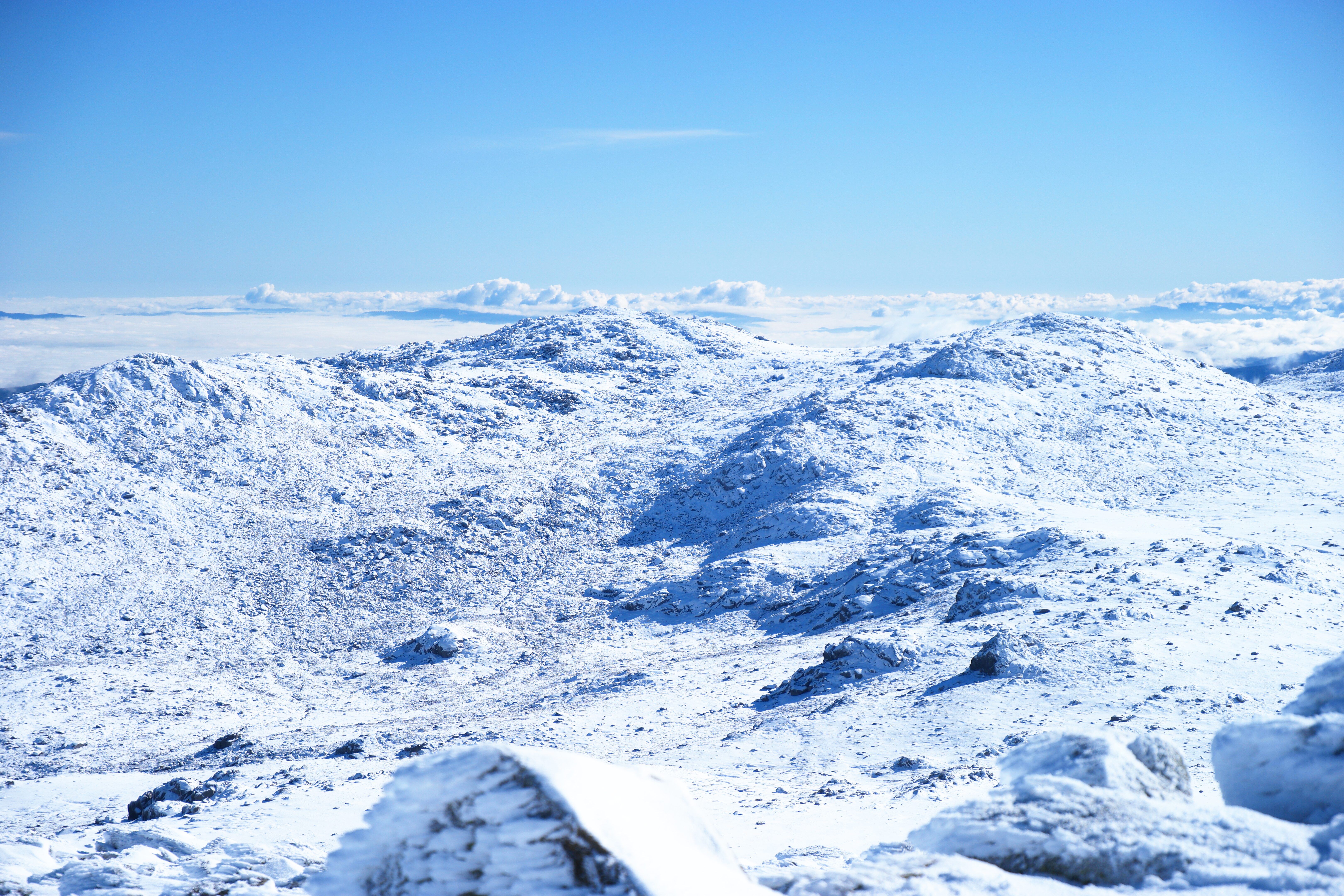 Morning views from the summit of Mount Kosciuszko, Kosciuszko National Park, New South Wales, Australia.